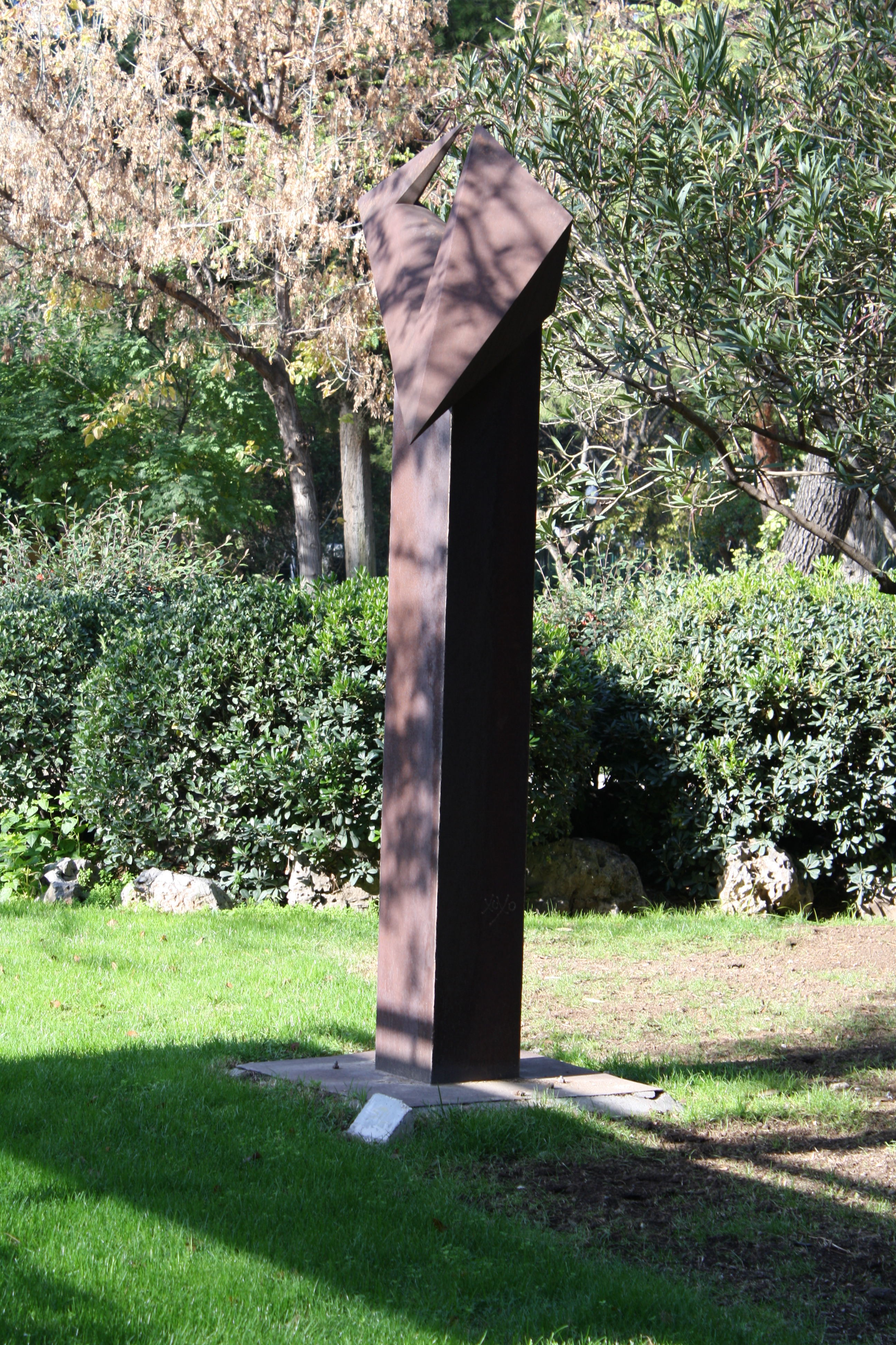 Xuxo Vázquez sculpture at the Museum of Outdoor Sculpture of Alcala de Henares (Community of Madrid - Spain).